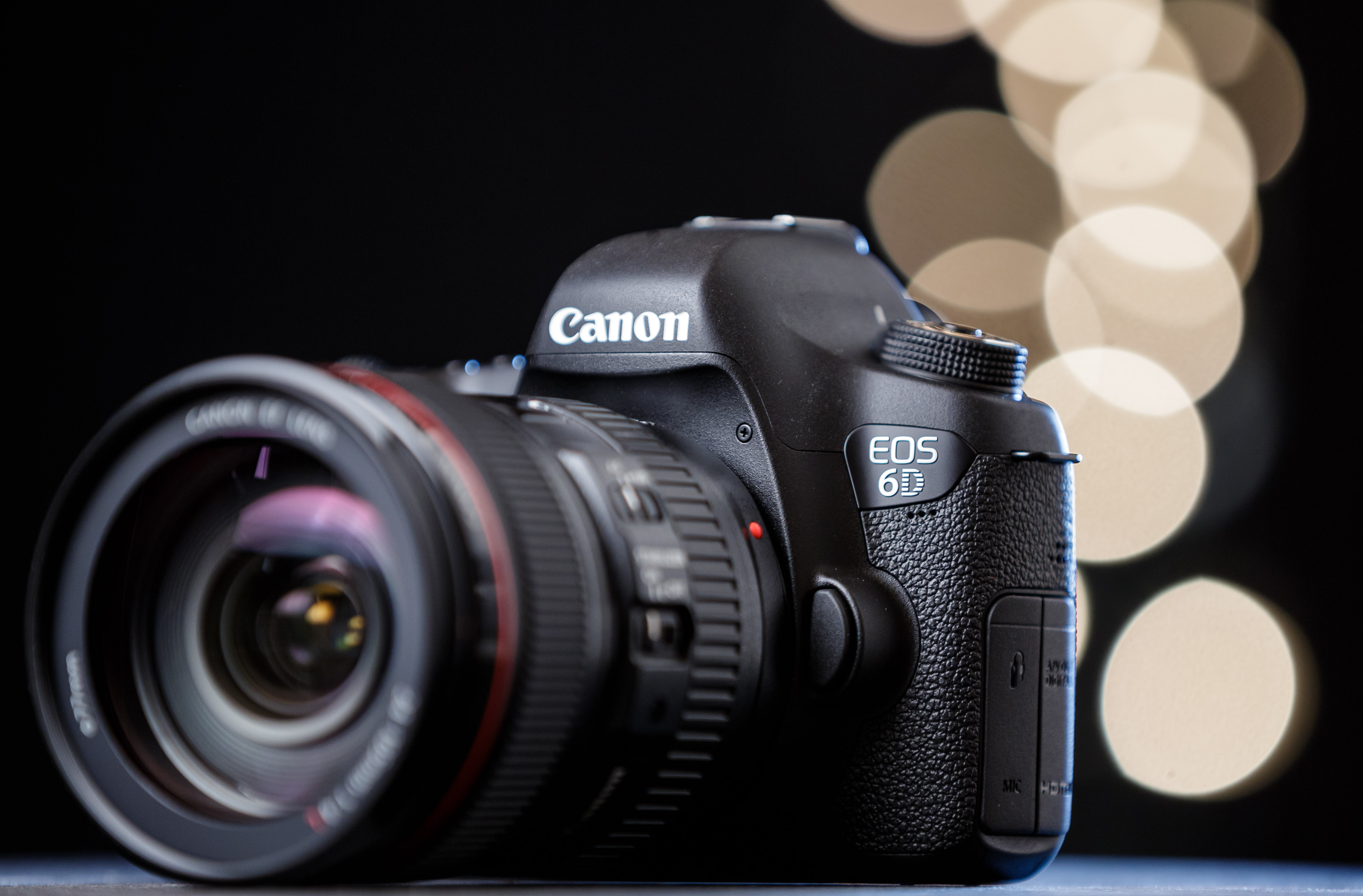 Canon EOS 6D digital SLR camera Feel free to use this image just link to